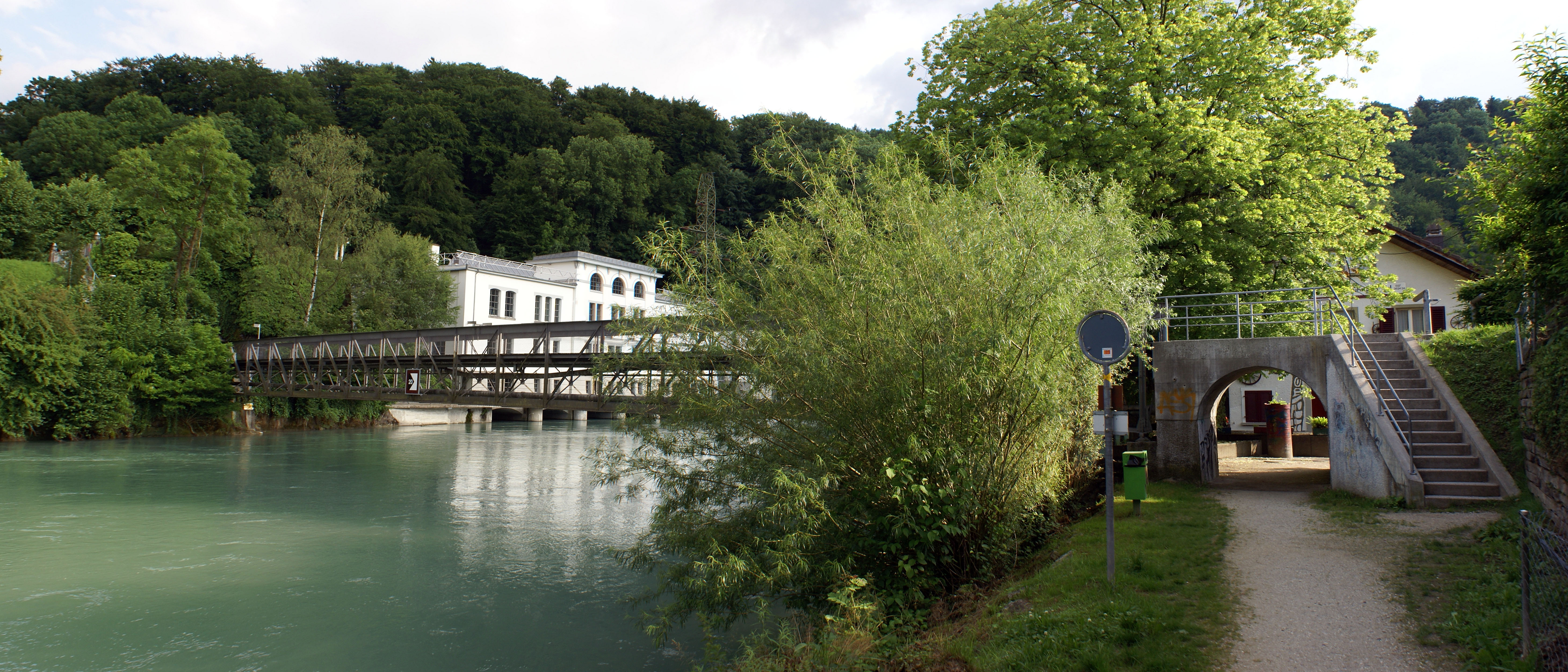 Seftausteg, Berne, Switzerland. Iron footbridge at the Felsenau power plant.